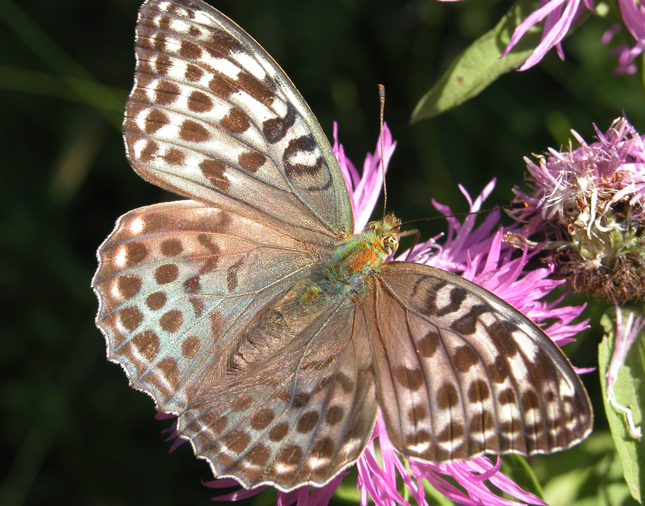 Silver-washed Fritillary